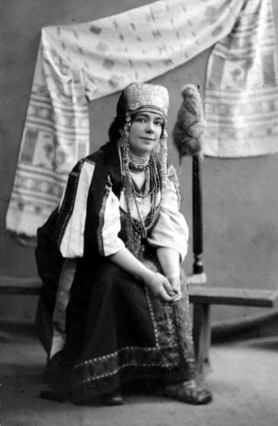 Varvara Karlovna Ustrugova ( Ostashevskaya) (? —1944) is an actress and narrator of Russian fairy tales.